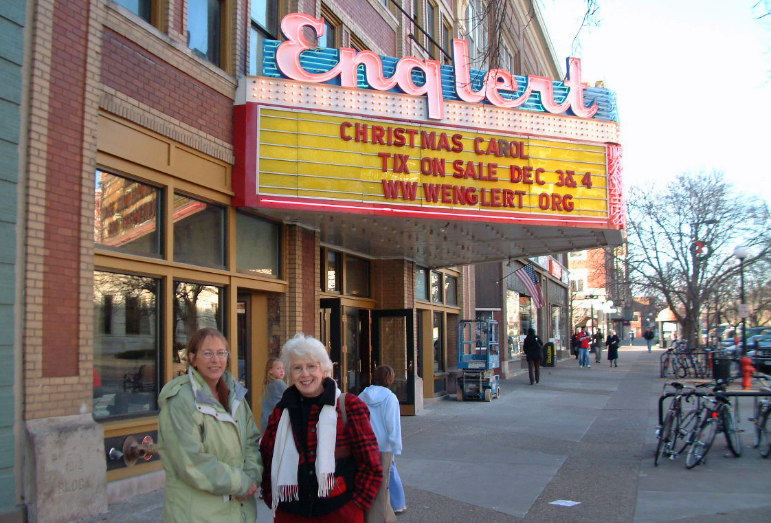 The canopy at Englert Theatre in downtown Iowa City is a predominant feature of an image of friends as they pause on their way to the venue's reopening as Englert Civic Theatre, a 10 a.m. matinee on Friday, December 3, 2004. It was the first live performance on the Englert stage after 60 years of silence, hidden behind huge motion picture screens. The person at right is the photographer's spouse, Margaret Kincheloe Hibbs.